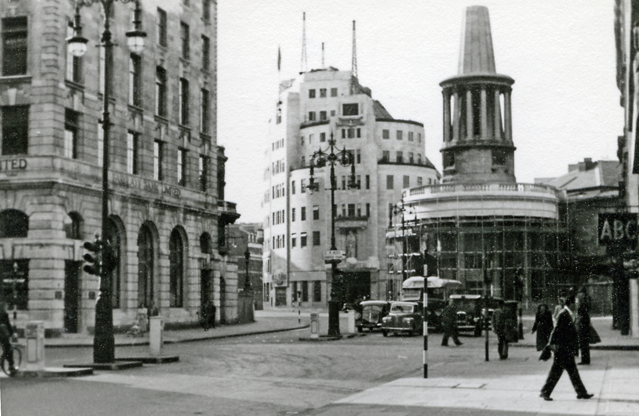 Church of All Souls and BBC Broadcasting House, Langham Place. View northward from Upper Regent Street. Badly damaged by a parachute mine in the Blitz (8 December 1940), the church lost the top of its spire and was out of use for 10 years. Broadcasting House, which had been hit already on 15 October, was also damaged.